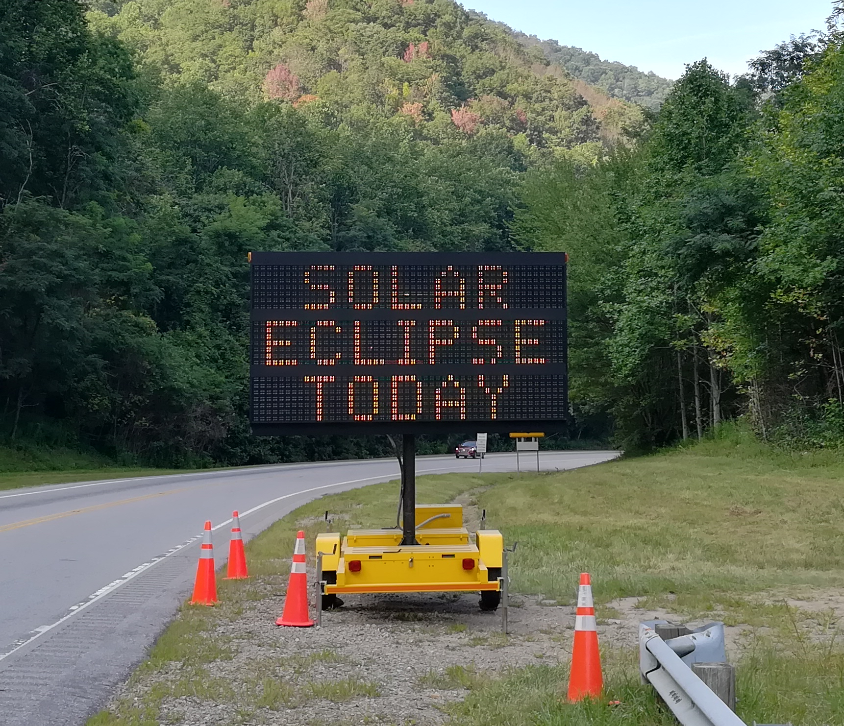 Road Sign SOLAR ECLIPSE TODAY on US Highway 64 on August 21, 2017.